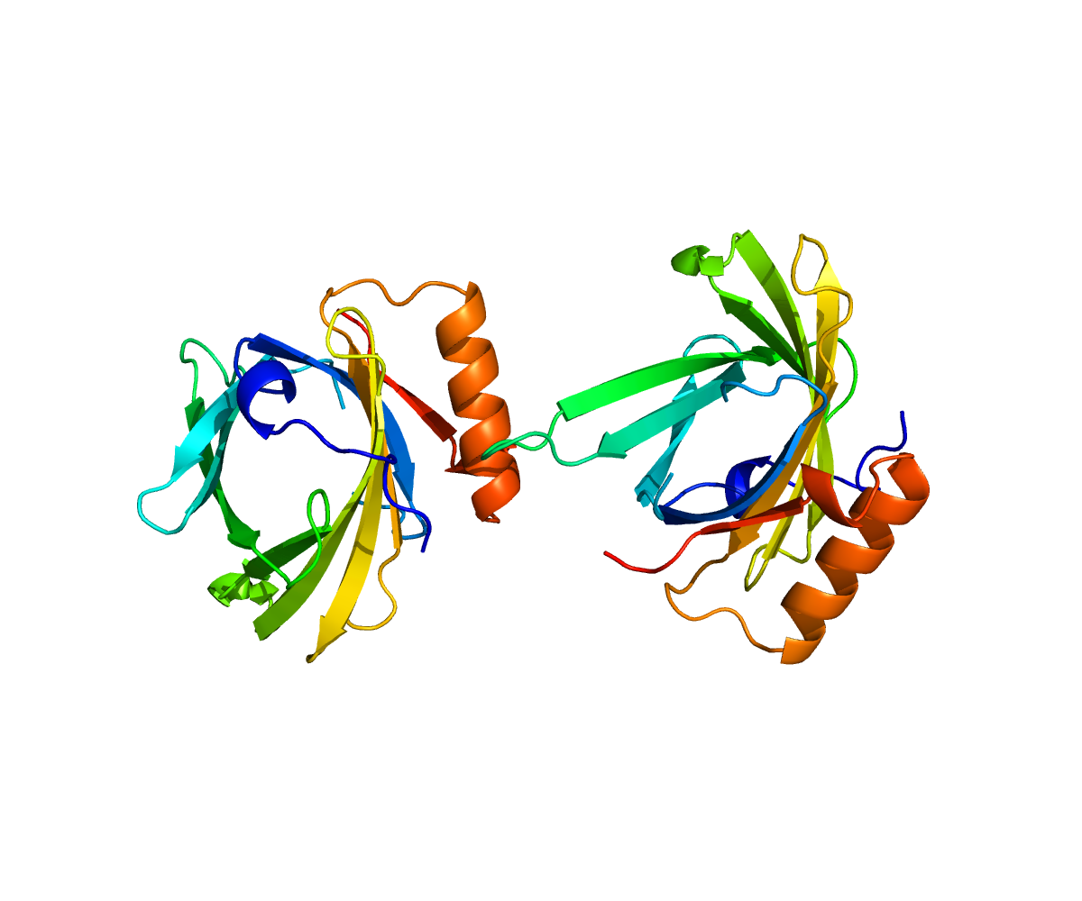 Structure of protein PTGDS.Based on PyMOL rendering of PDB 2WWP.